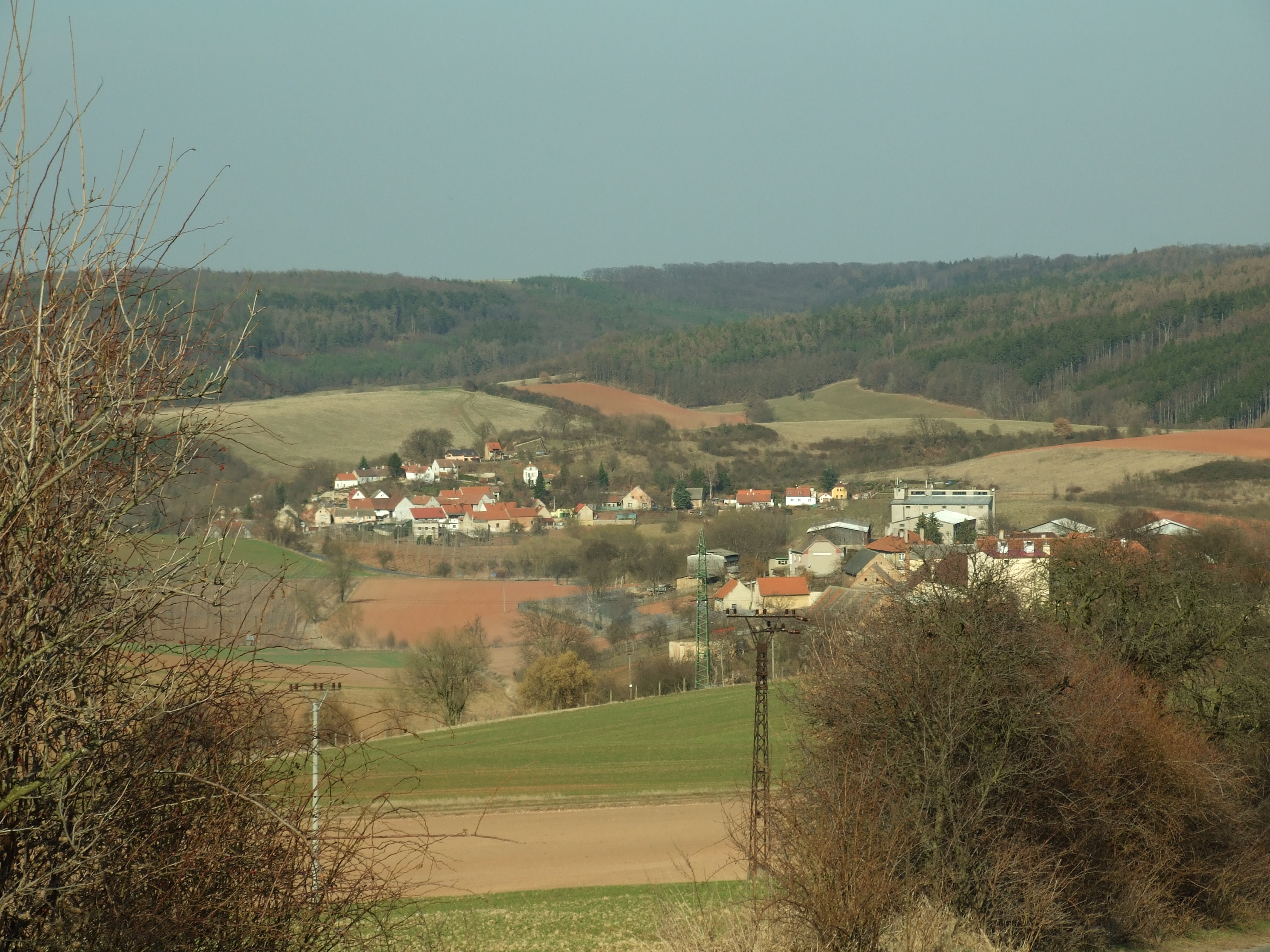 Kozojedy and Vinařice villages. Between these two a border of Central and Ústí nad Labem regions could be found, Rakovník District. Central Bohemian Region, CZ